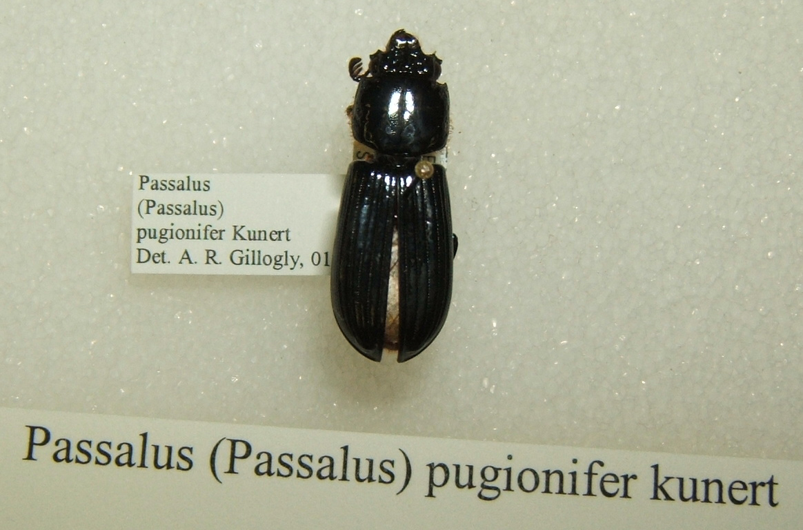 Passalus pugionifer adult taken by Shawn Hanrahan at the Texas A&M University Insect Collection in College Station, Texas.